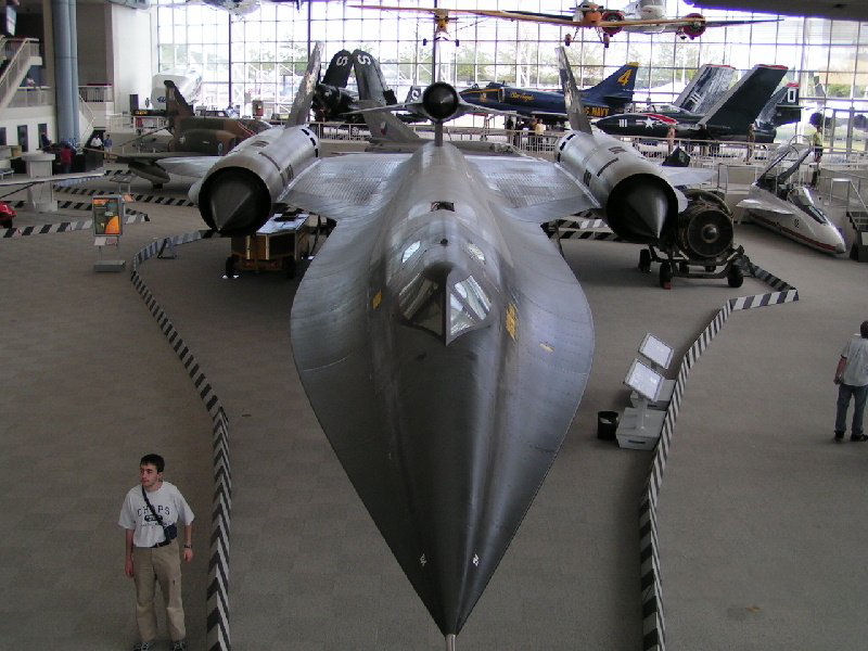 Lockheed M-21 with Lockheed D-21B drone mounted above Displayed in Museum of Flight in Seattle, Washington